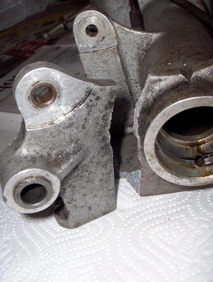 A break in an aluminium casting that needs repair